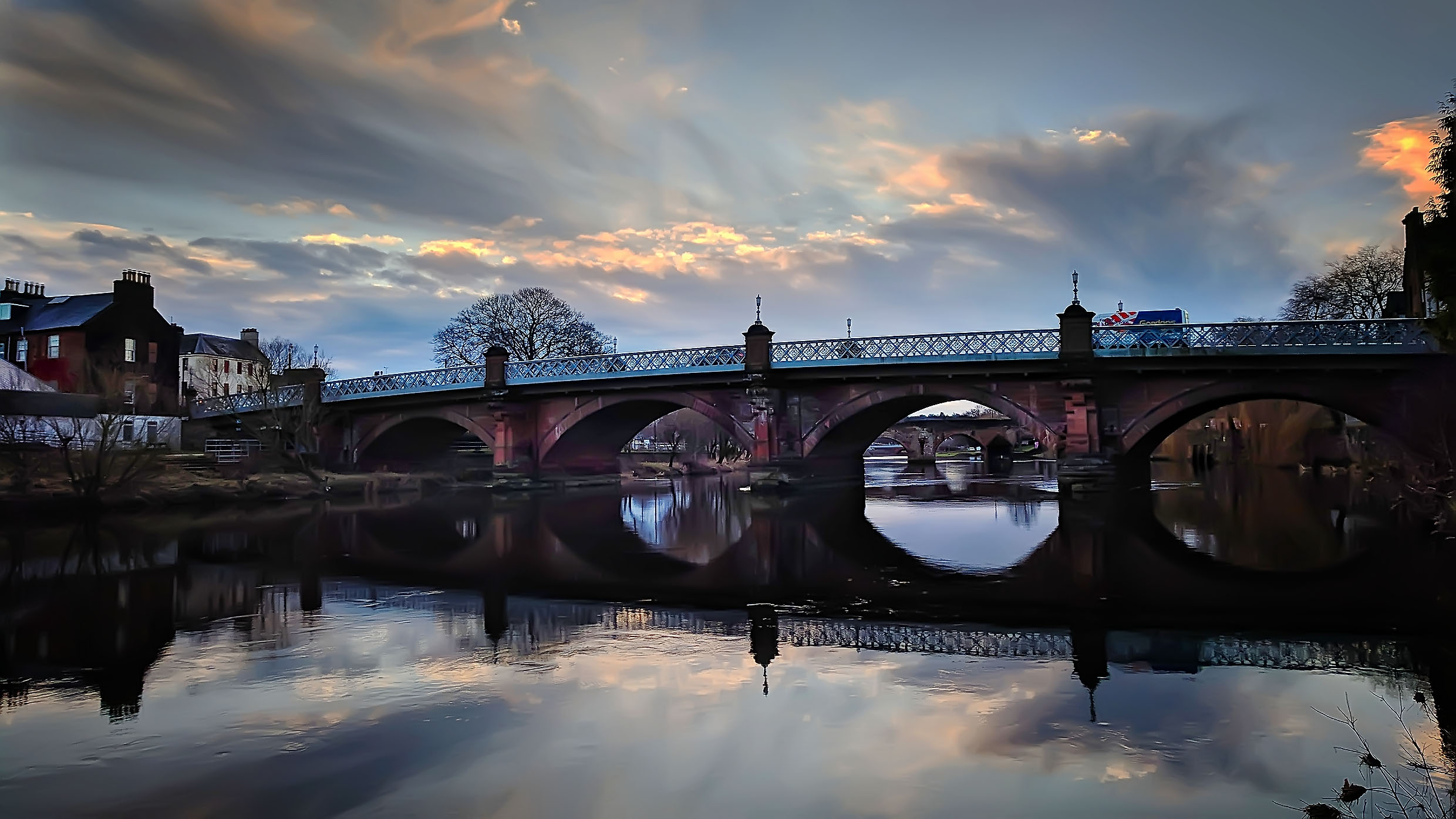 Dumfries, New Bridge Wikidata has entry Q17793294 with data related to this item. This file was uploaded as part of the Dumfries Stonecarving Project in Dumfries, Scotland, UK. This tag does not indicate the copyright status of the attached work. A normal copyright tag is still required. See Commons:Licensing.